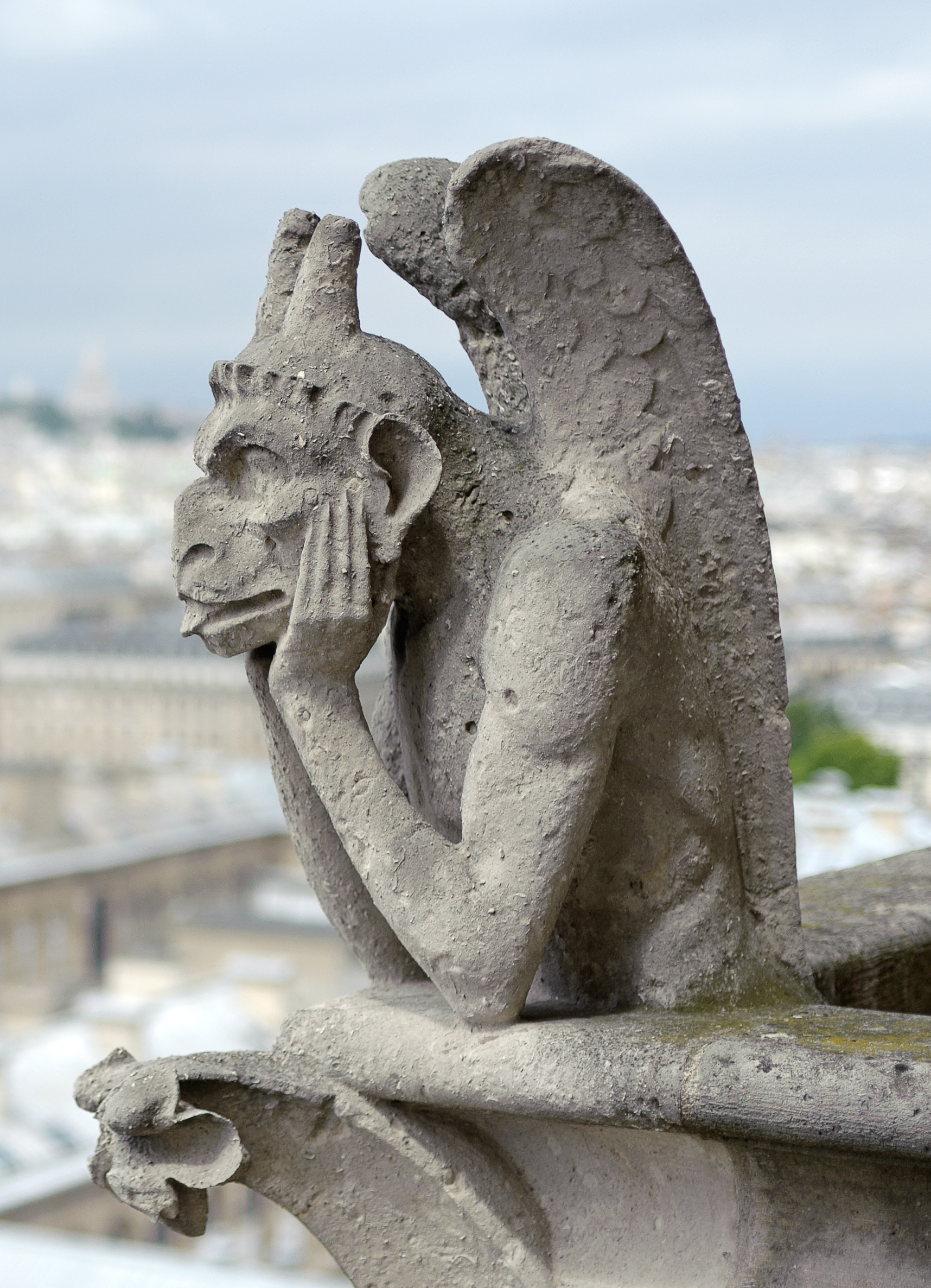 Chimera of at Notre Dame de Paris